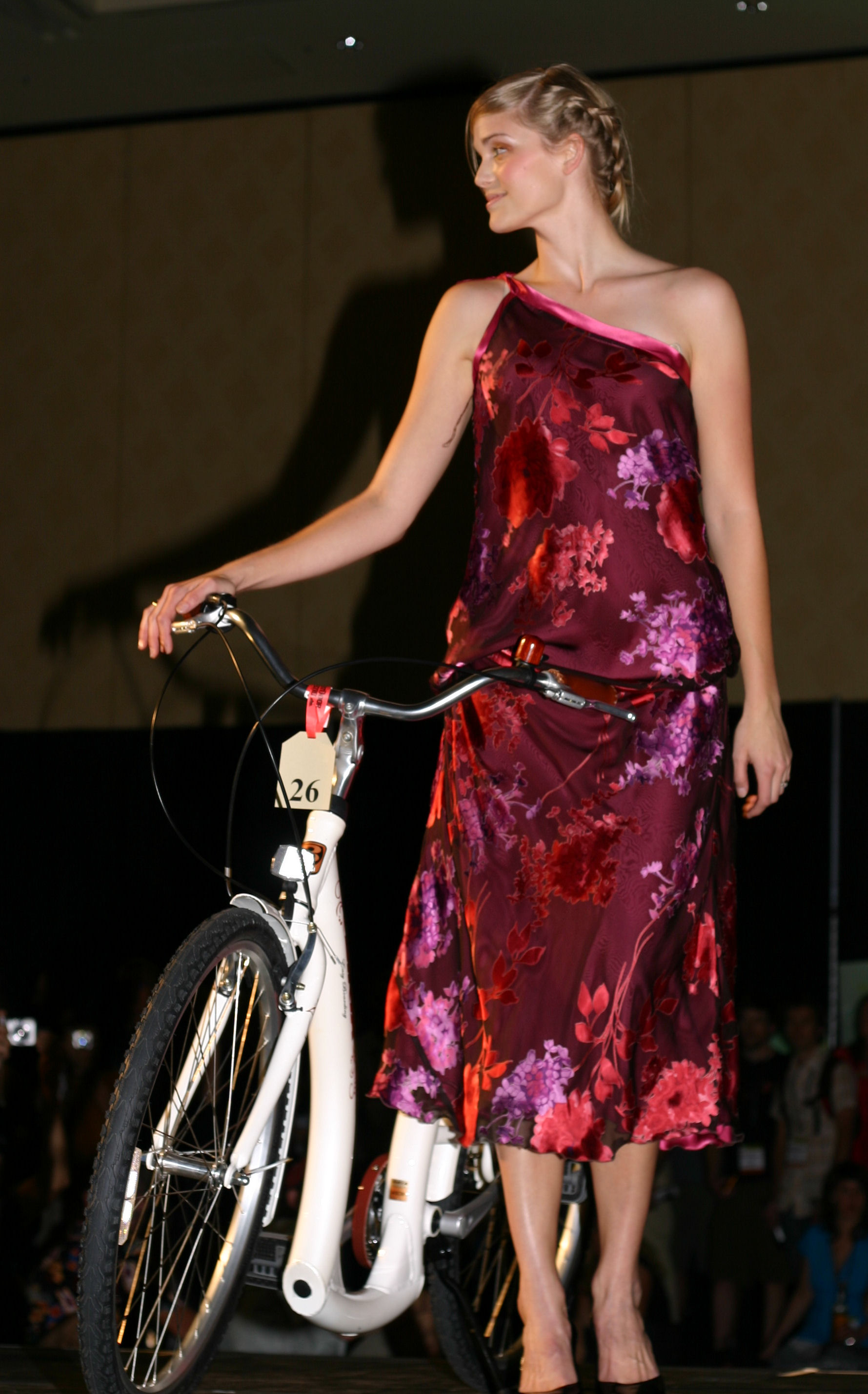 Bira bike